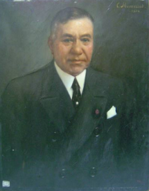 Retrat de Tomeu Viñas (1934)